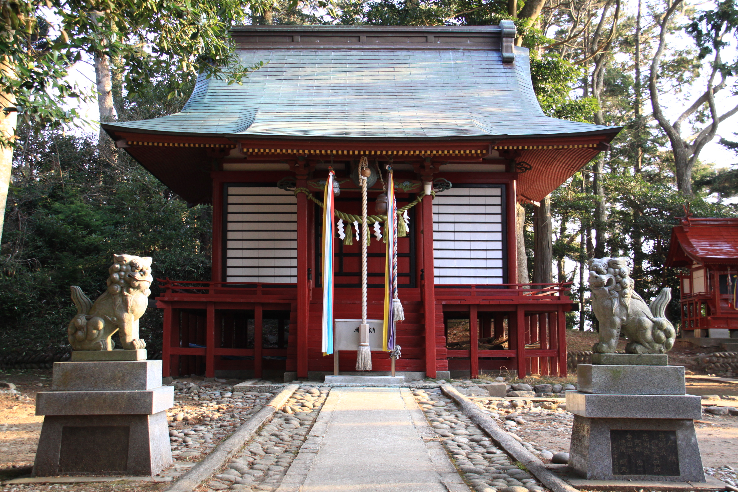 Hanabushi-jinja is the Shinto shrine in Shichigahama, Miyagi, Japan. This building is Haiden.